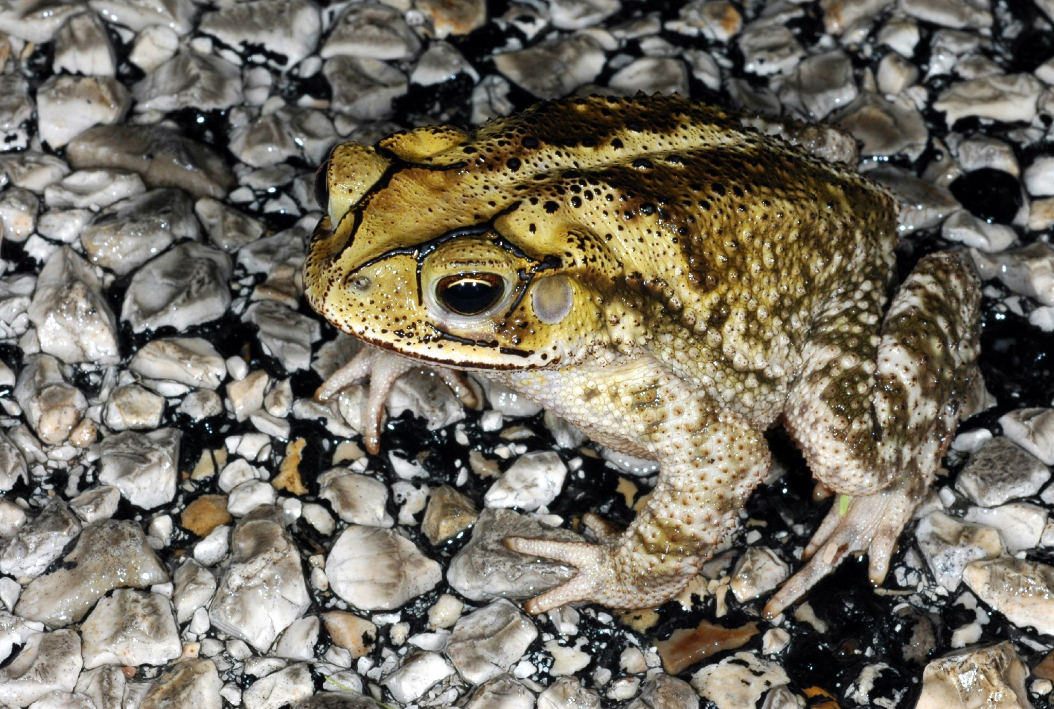 Gulf Coast Toad (Bufo valliceps). Amistad National Recreation Area, Texas. These little guys were all out along the road, Spur 454, entering the San Pedro Campground and boatramp area.